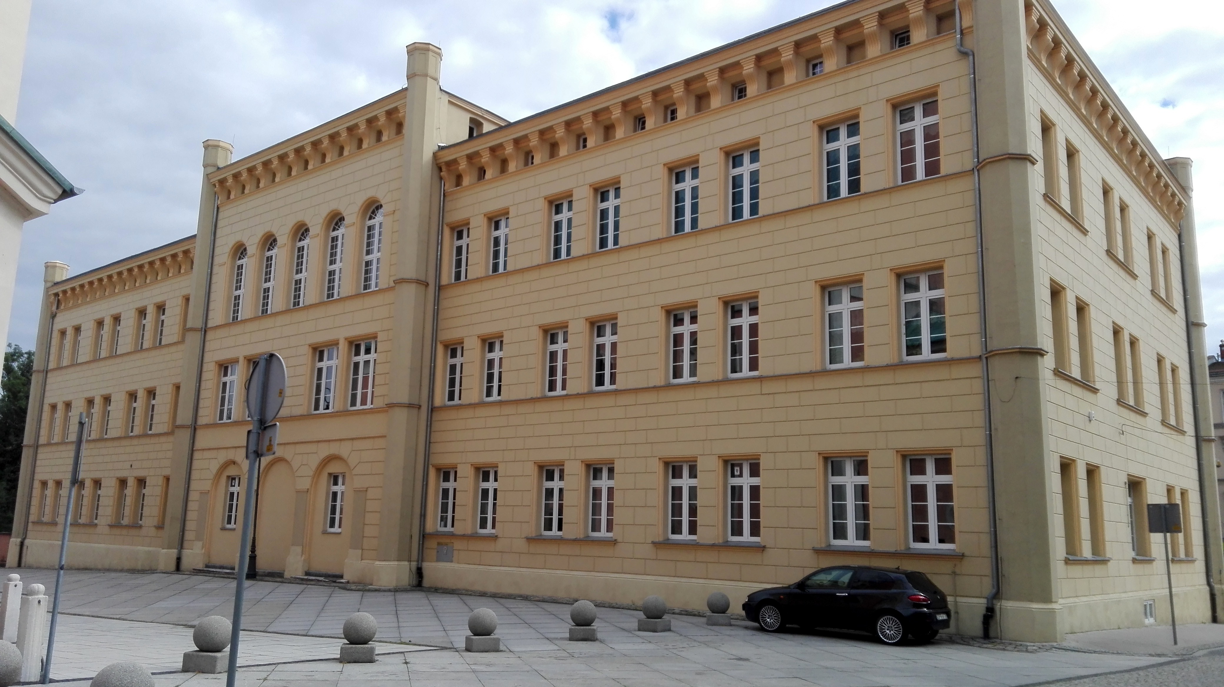 1 Armii Krajowej Street in Prudnik